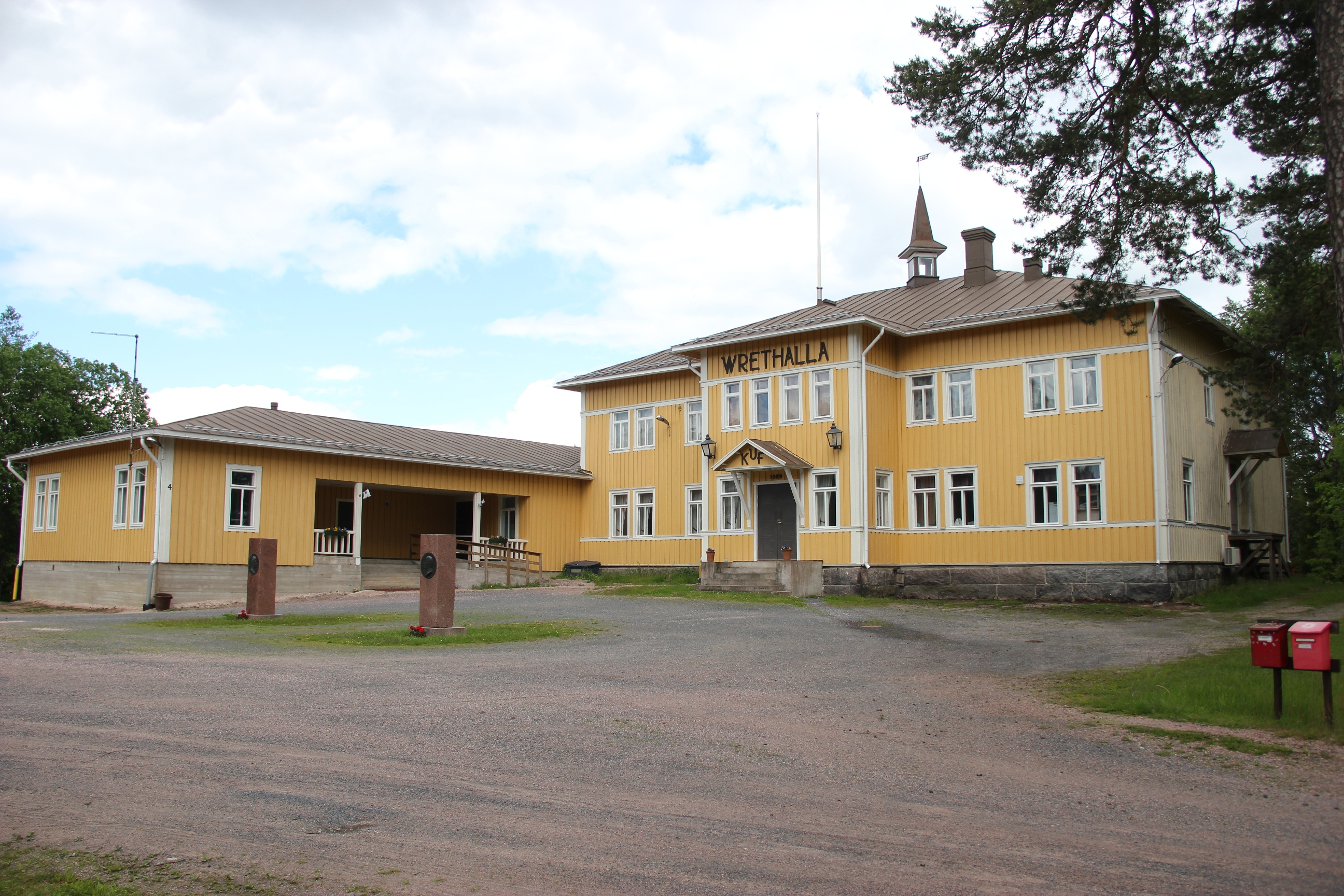 Owner: Kimito youth association, Kimitoön, Finland Address: Museivägen, 25700 Kimito